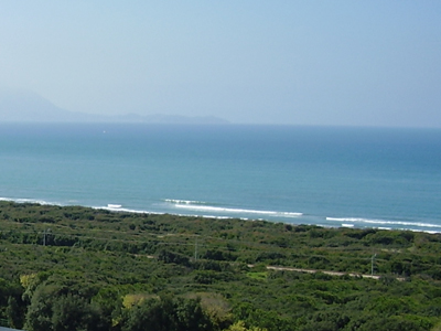 Silva Gallinaria vista da Cuma.